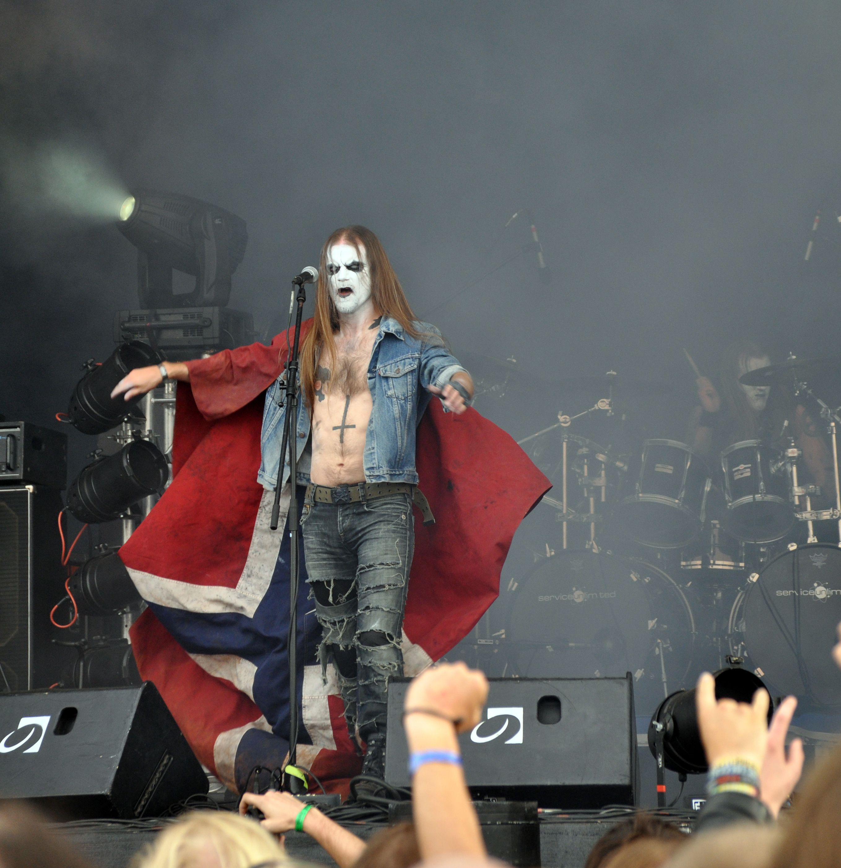 Norwegian band Taake at Party.San Open Air 2011